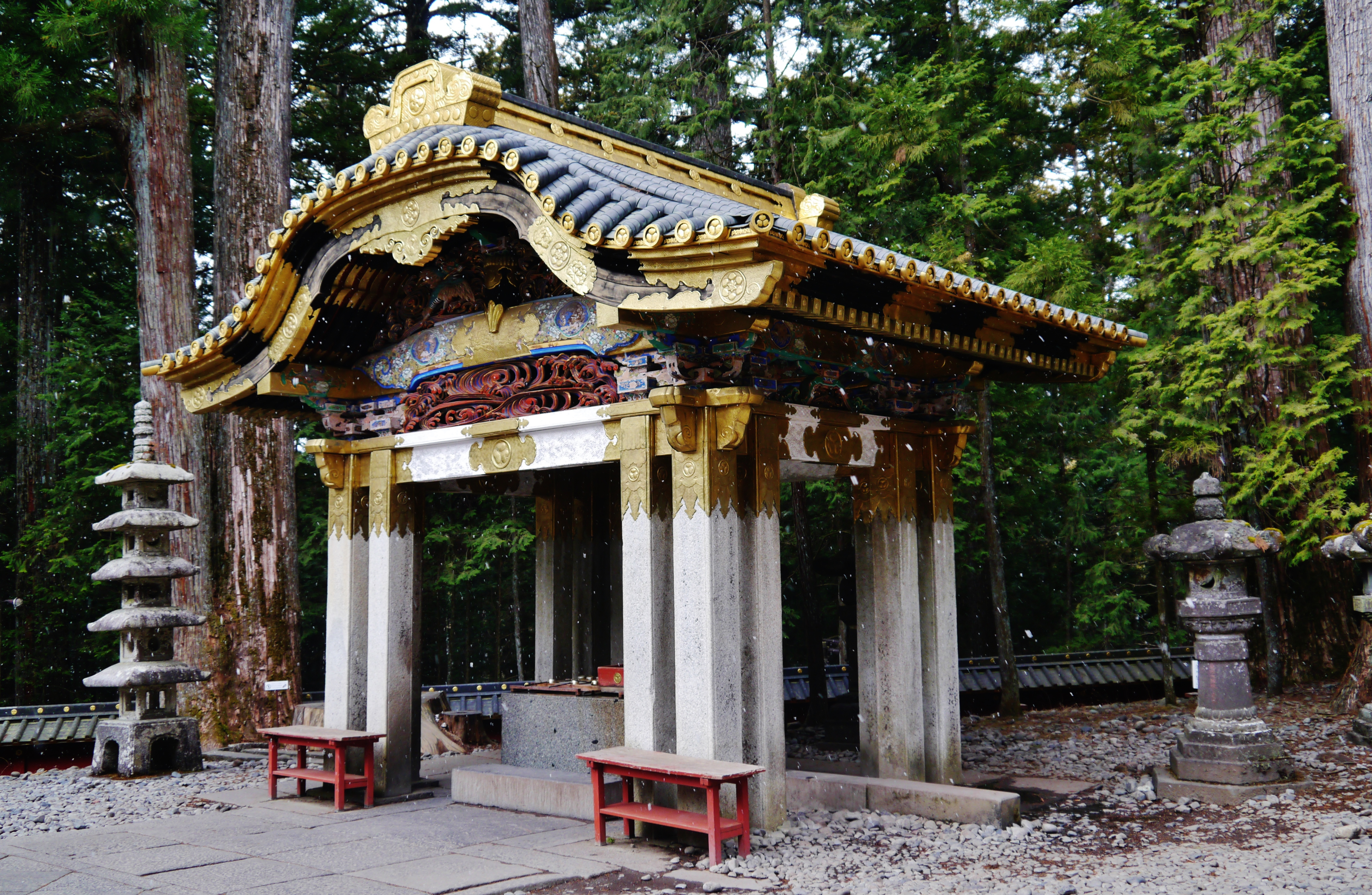 Omizu-ya of the Nikko Tosho-gu Shrine, Nikko, Prefecture of Tochigi, Region of Kanto, Japan